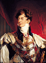 Portrait of King George IV in the robes of the Order of the Garter as Prince RegentBân-lâm-gú: Kuè-khì ê Ing-kok kok-ông George IV. 過去的英國國王喬治四世。